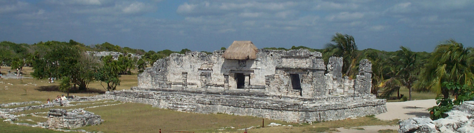 Part of the extensive ruins in Tulum, Mexico